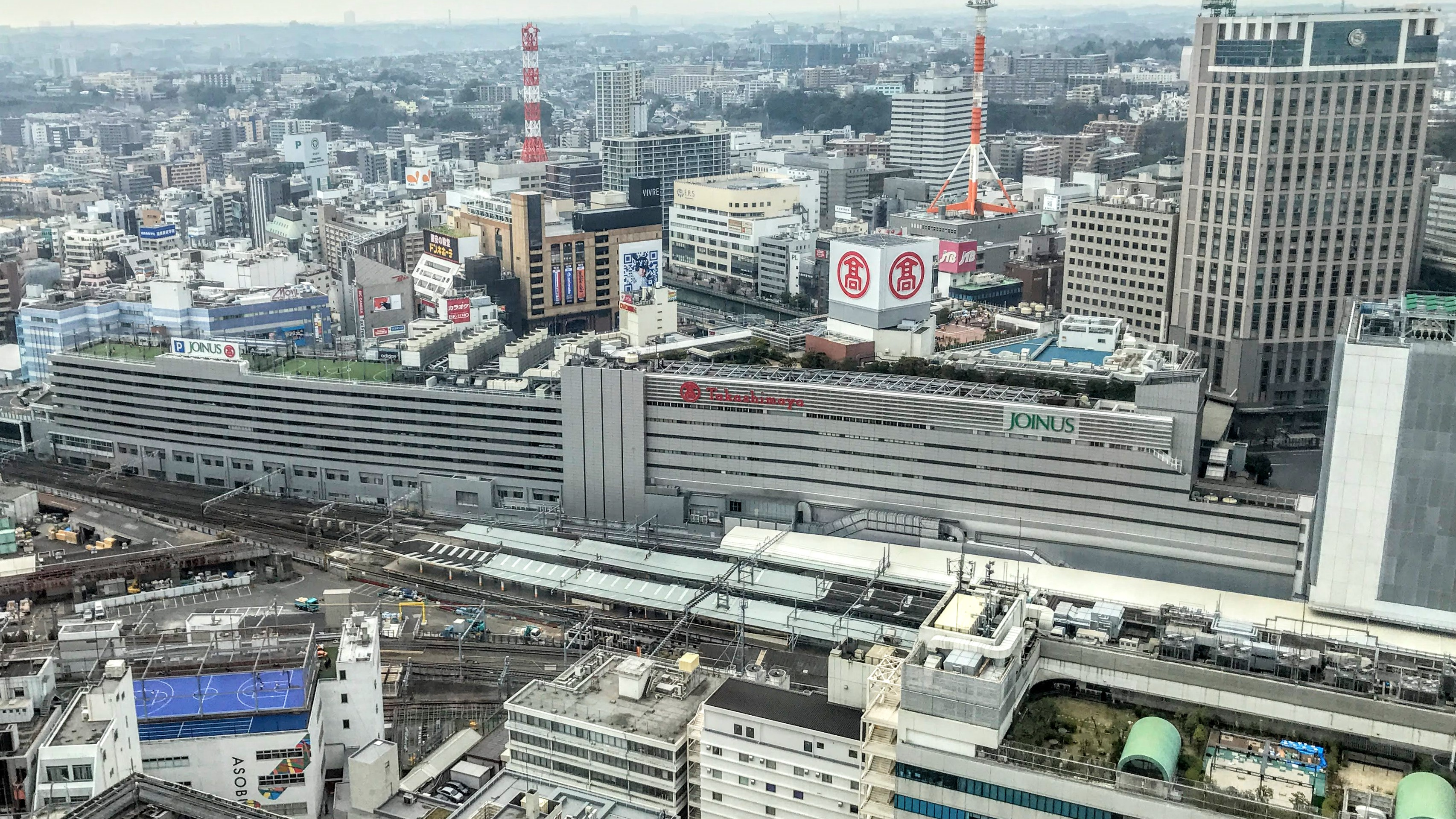 Panoramic view of the Sotetsu Joinus. Taken from Yokohama Sky Building.